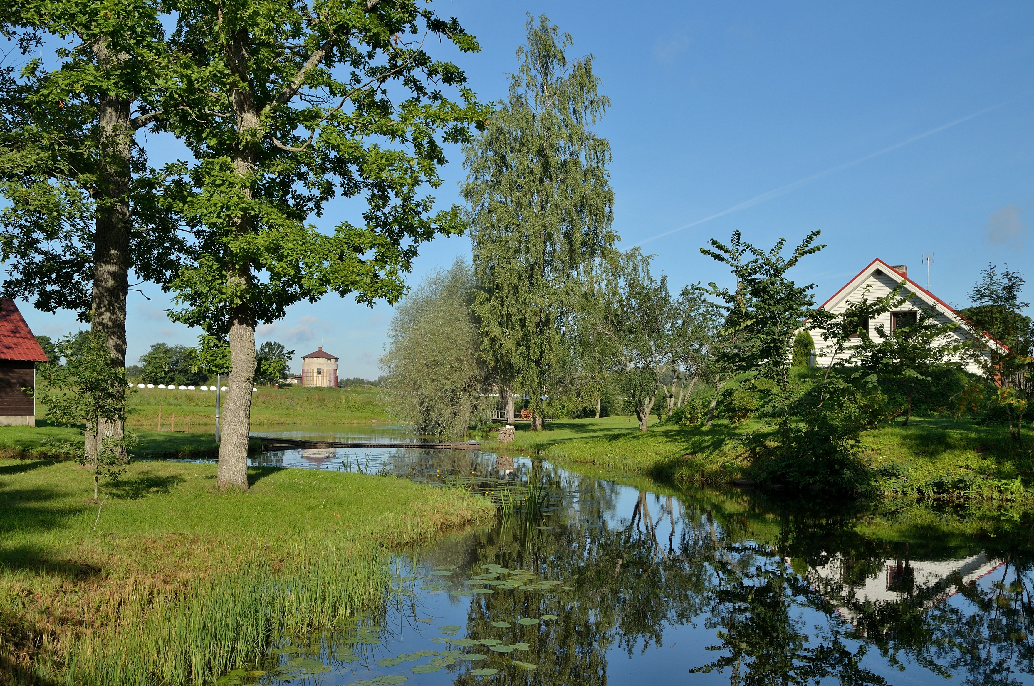 Jõelähtme river in Kiviloo village